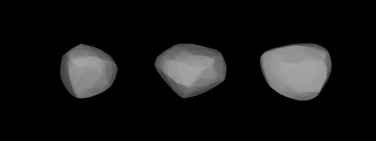 A three-dimensional model of 42 Isis that was computed using light curve inversion techniques.